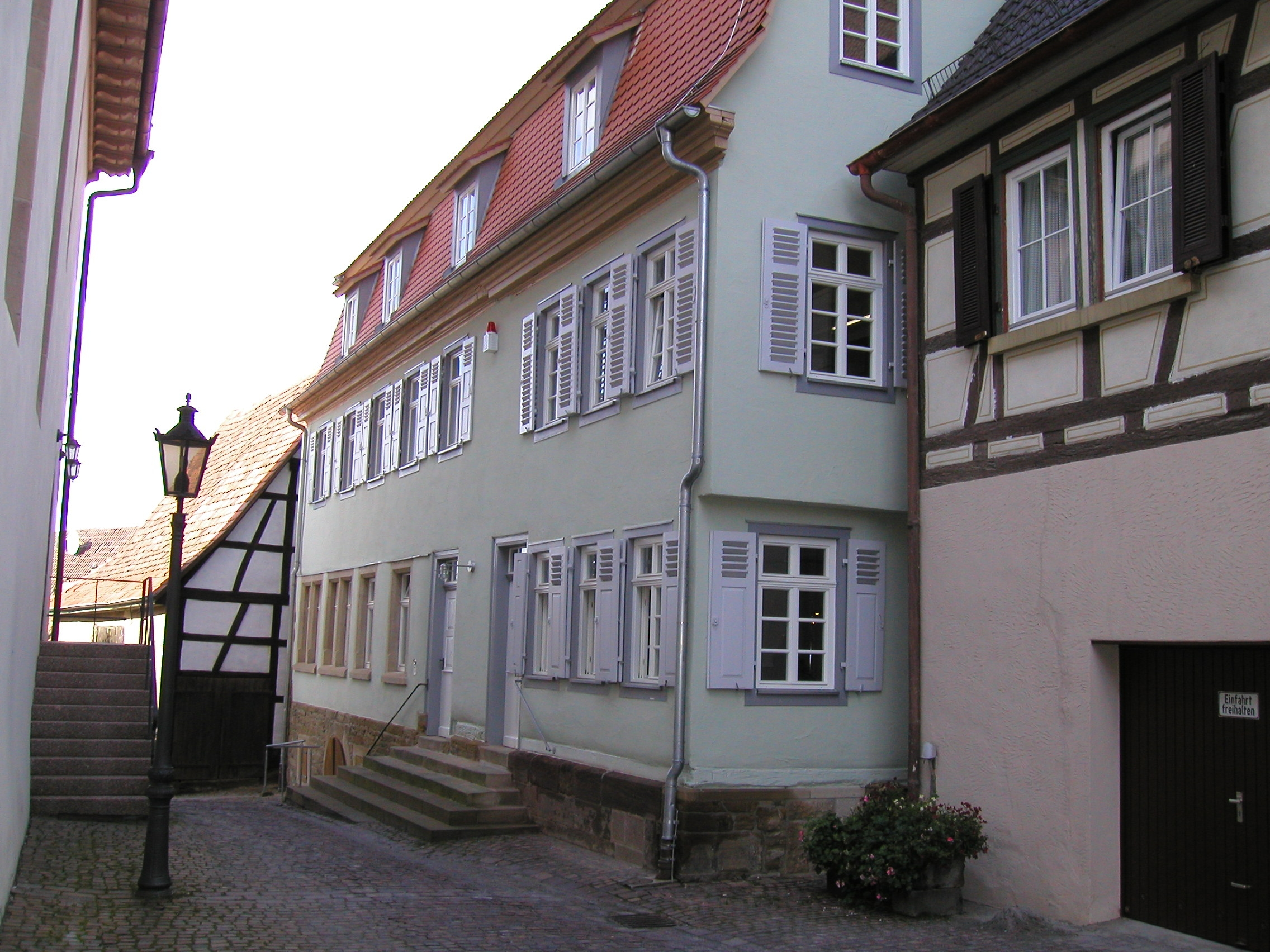 Faust-Archiv (Außenansicht)